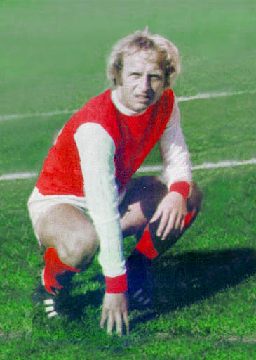 Alan Whittle in Iran